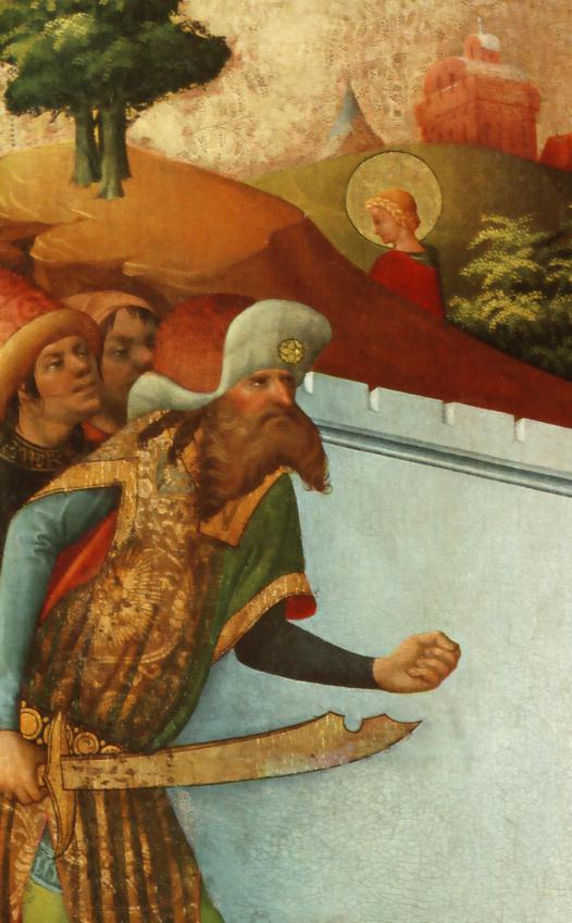 Detail of the second painting "Miracle at the Wall" by Master Francke in Barbara altar.